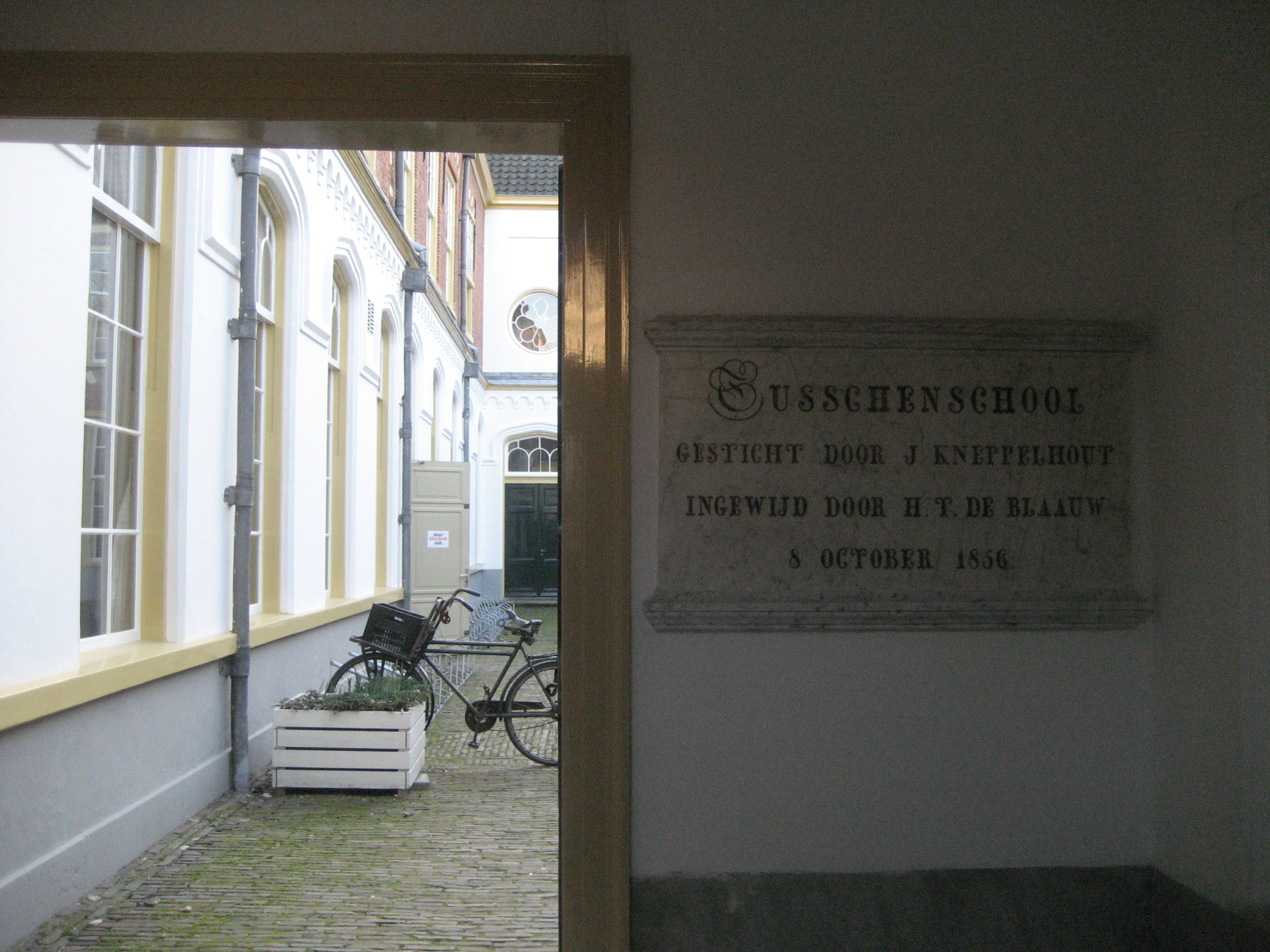 Ars Aemula Naturae, Pieterskerkgracht 9, Leiden (The Netherlands). Tussenschool Kneppelhout